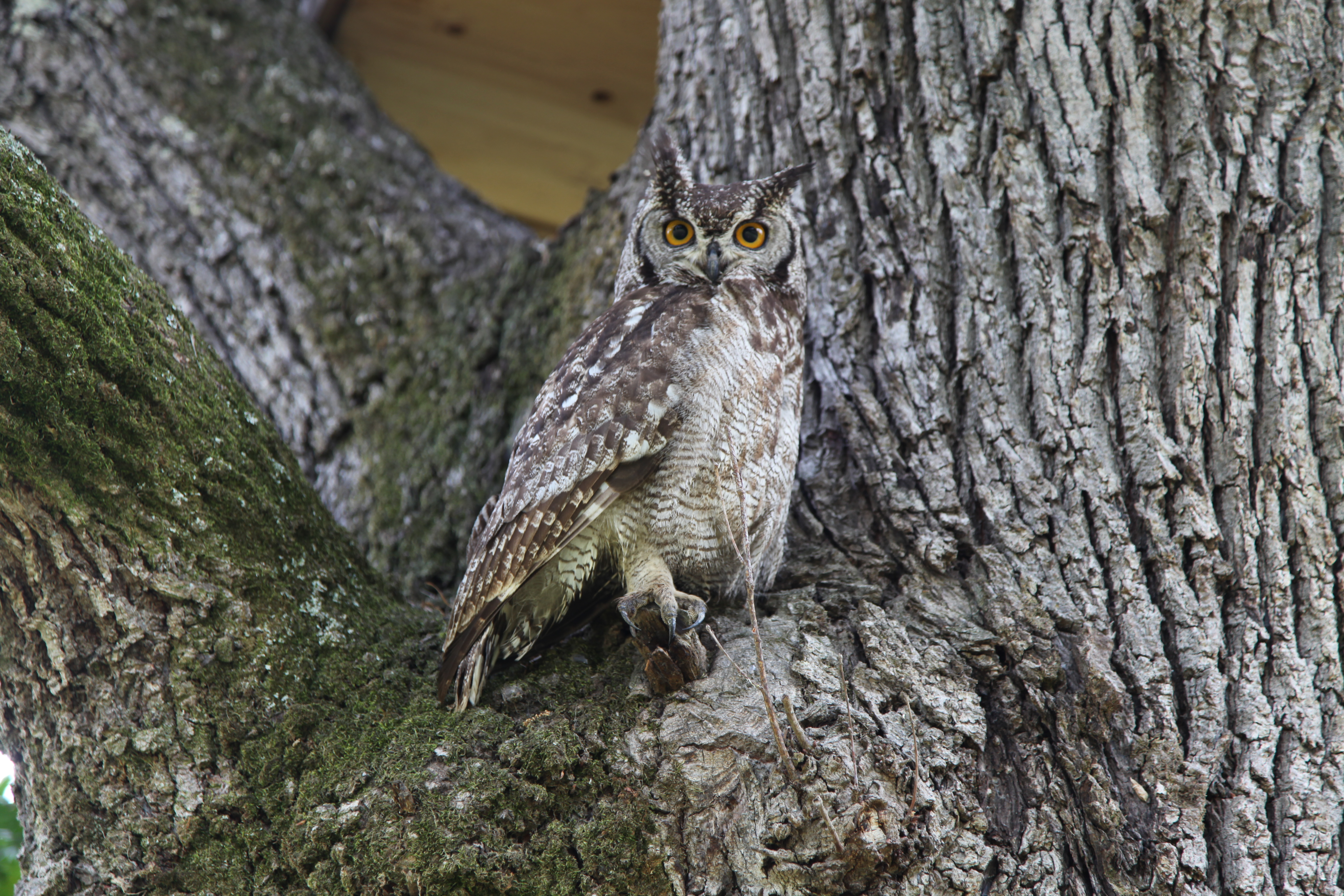 This two month old Spotted Eagle-Owl (Bubo africanus) was hatched in an owl-box in the Jonkershoek Valley, Stellenbosch, South Africa.